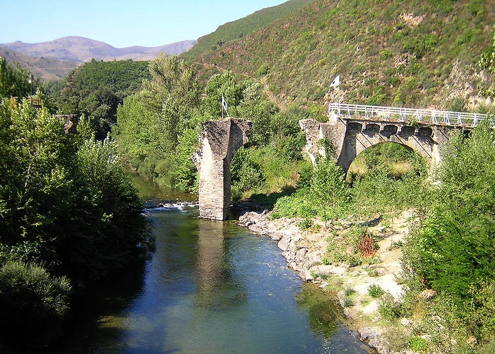 Ruines of the genoan bridge over the Golo river (Northern Corsica) known as Ponte Nuovo (Ponte Novu), which gave its name to the battle won by the Louis XV of France Army marking the end of the Independence of the Corsican State led by Pasquale Paoli on May, 9th, 1769. The Bridge was almost destroyed by the German Army retreating towards Bastia in September 1943 in order to slow-down the advance of the Italian troops - supported by the local Resistance and some French Colonial troops - against them.